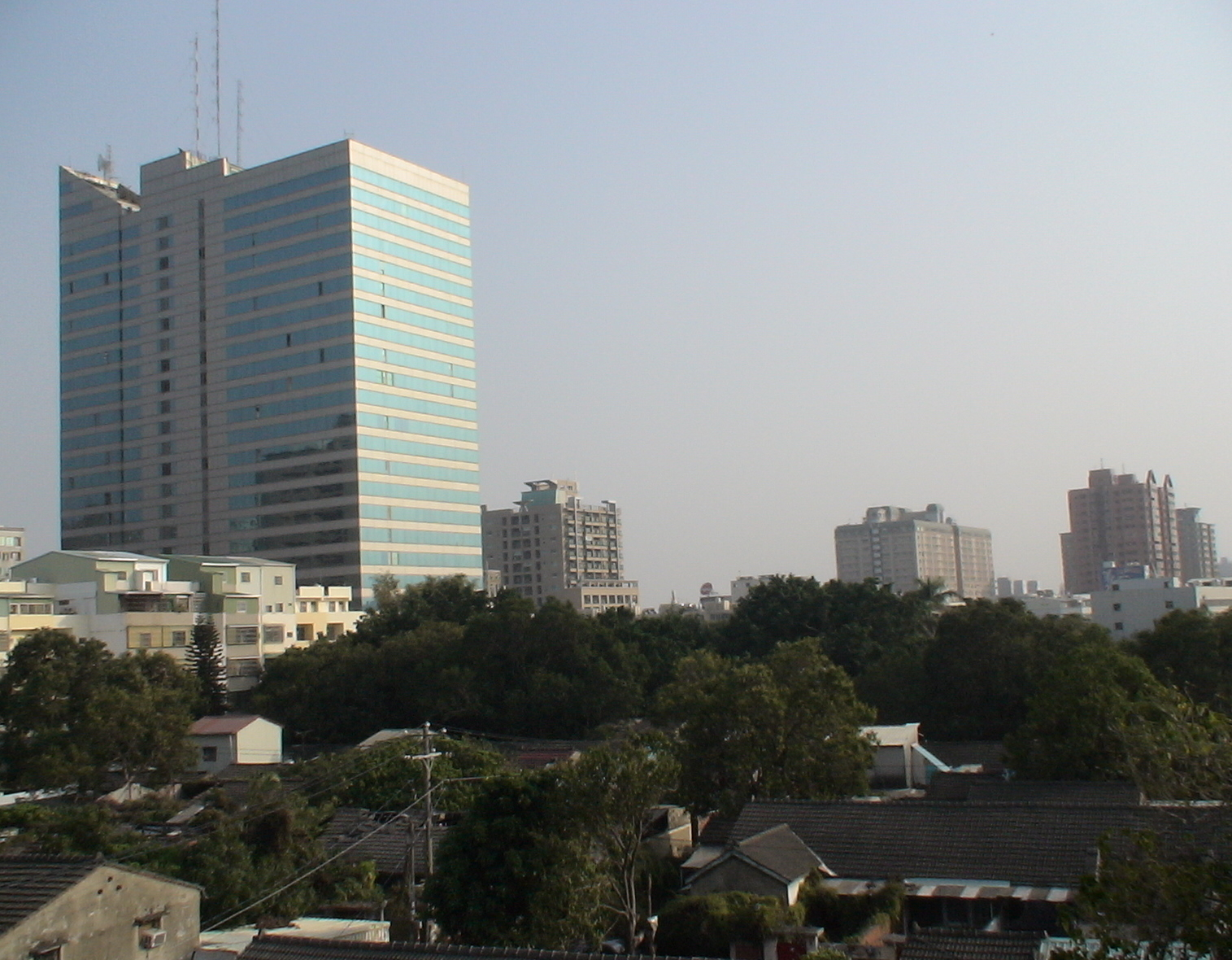 Tang Shan Sin Cun (lit. "Tangshan New Residential Quarter"), Tainan, Taiwan.